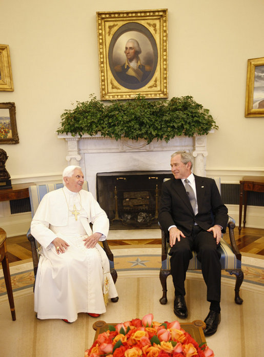 President George W. Bush and Pope Benedict XVI meet in the Oval Office Wednesday, April 16, 2008, following the Pope's welcoming ceremony on the South Lawn of the White House.